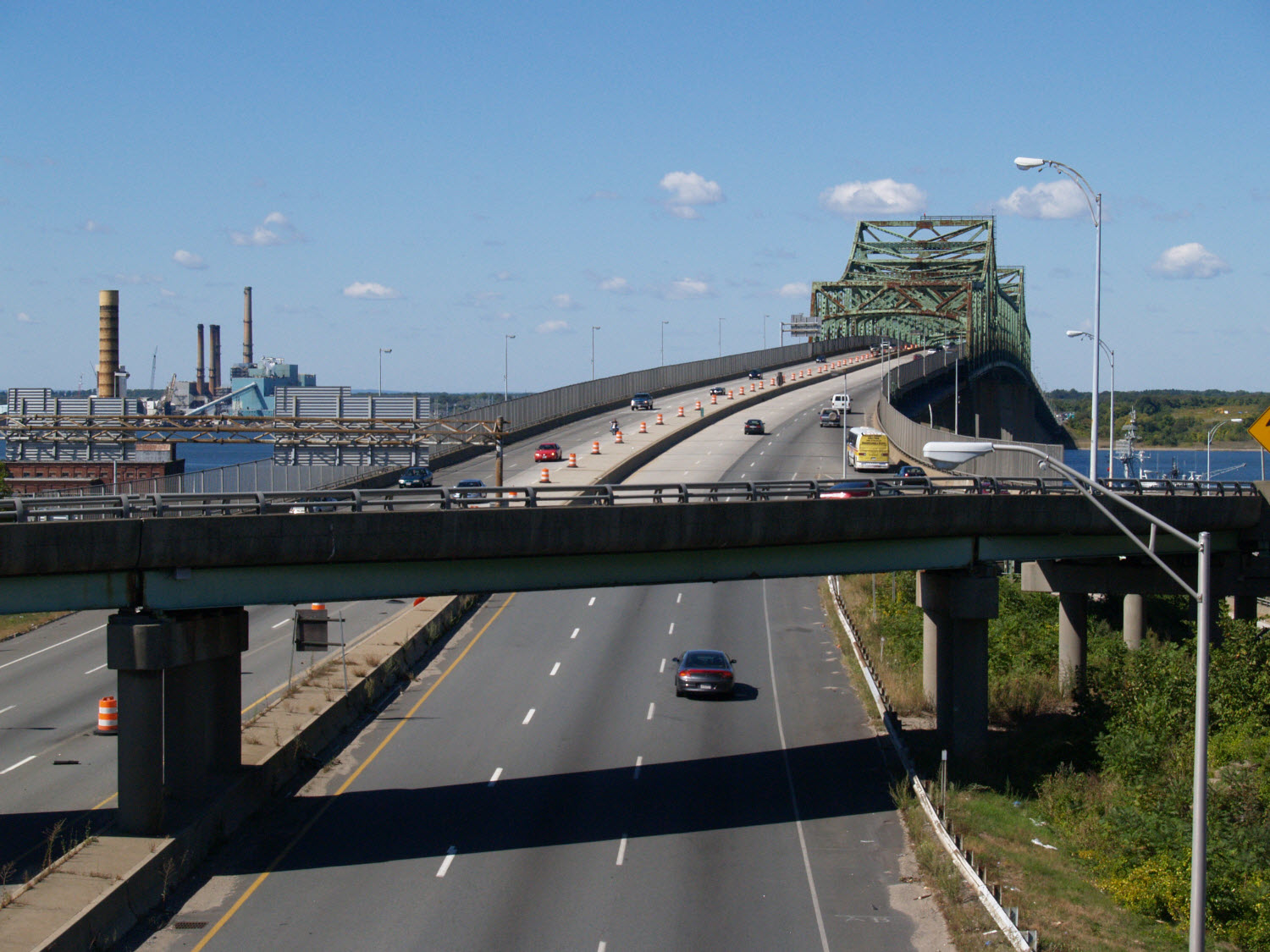 Braga Bridge and Interstate 195, Fall River, Massachusetts